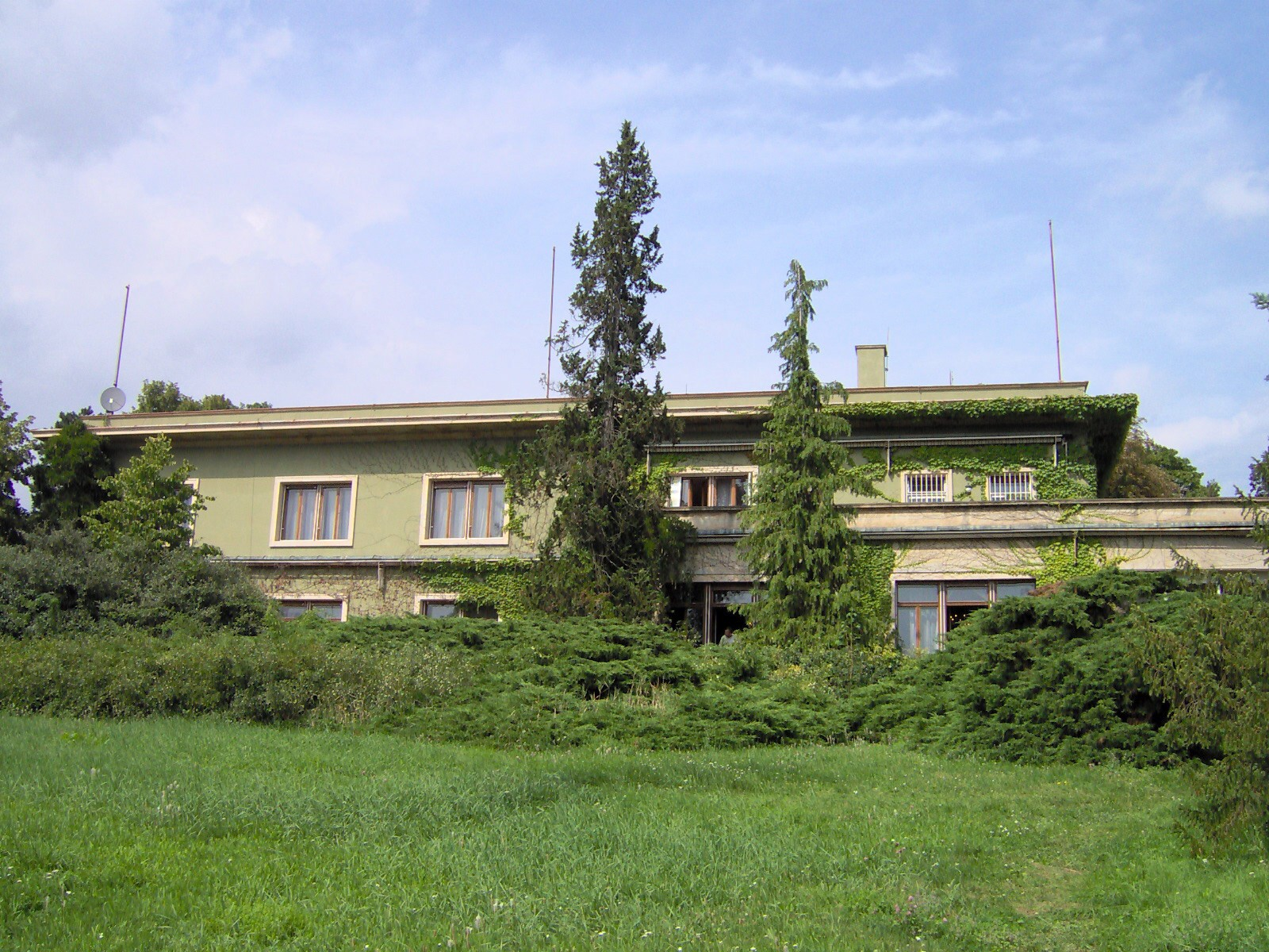 Villa Stiassny, Brno, Czech Republic